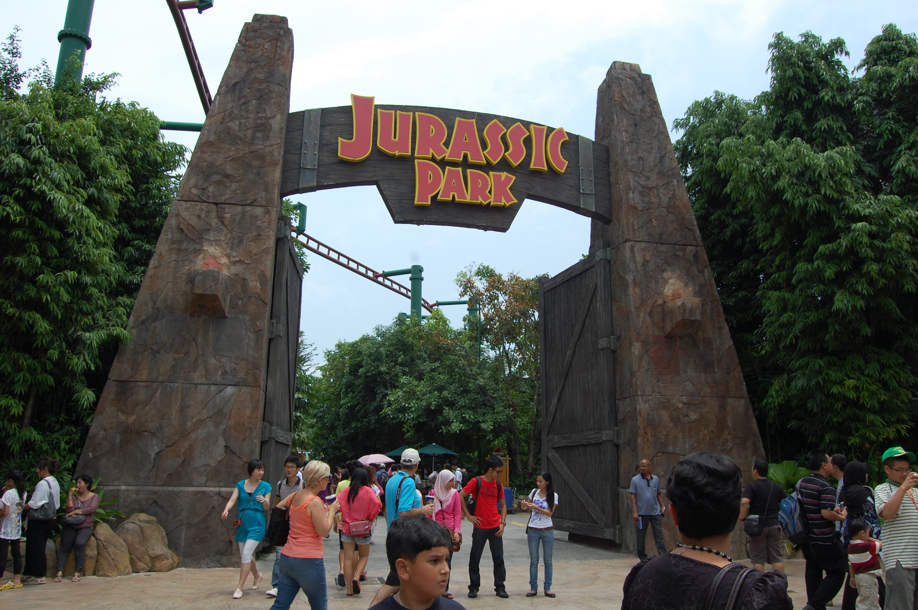 Universal Studio Singapore